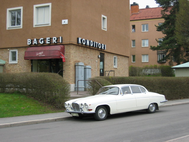 Borgs Bageri och Konditori (bakery shop), Linköping. The car in the foreground is a 1968 Jaguar 420G.